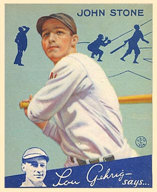 1934 Goudey baseball card of John Stone of the Washington Senators #40. PD-not-renewed.